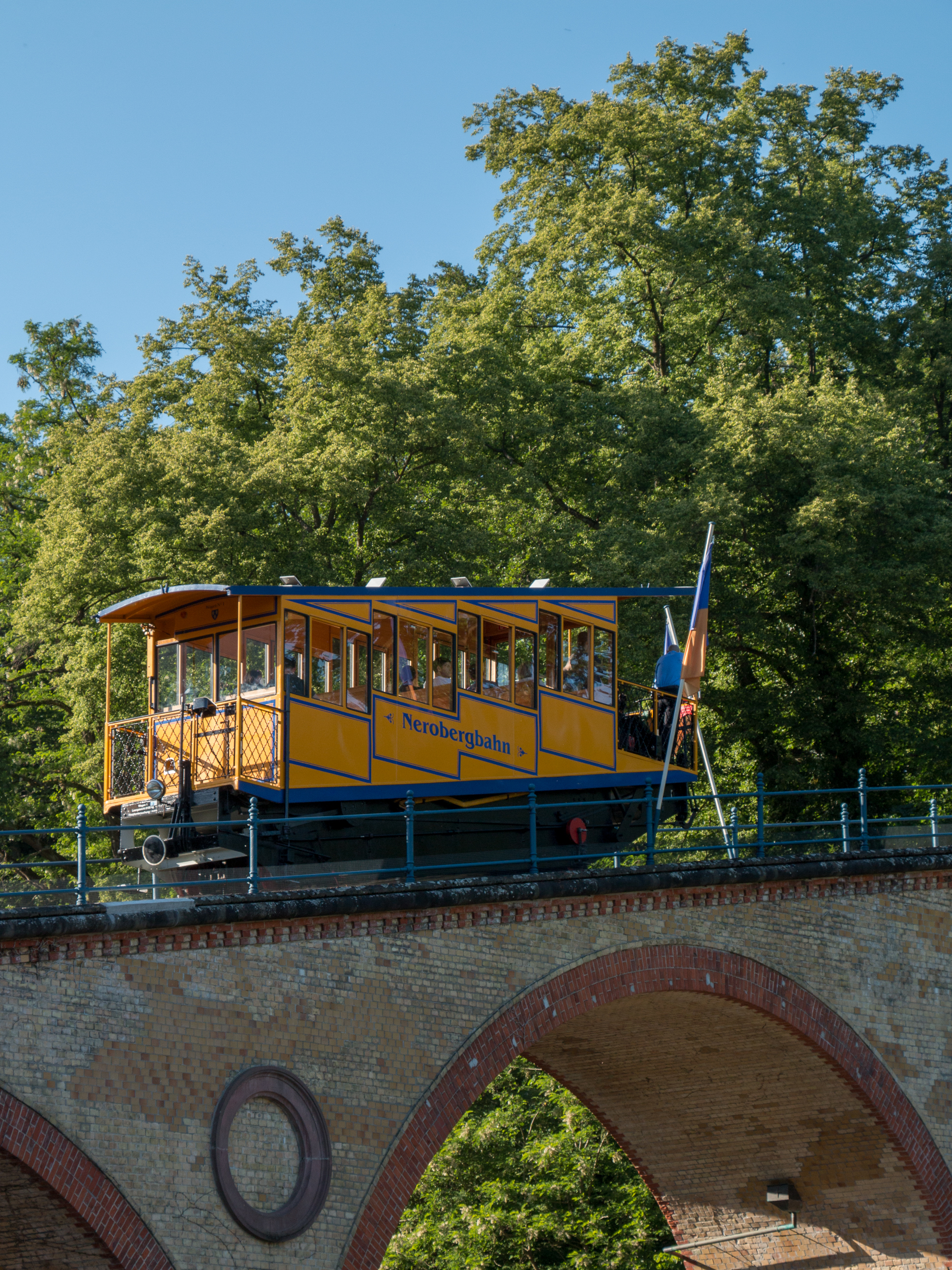 Nerobergbahn